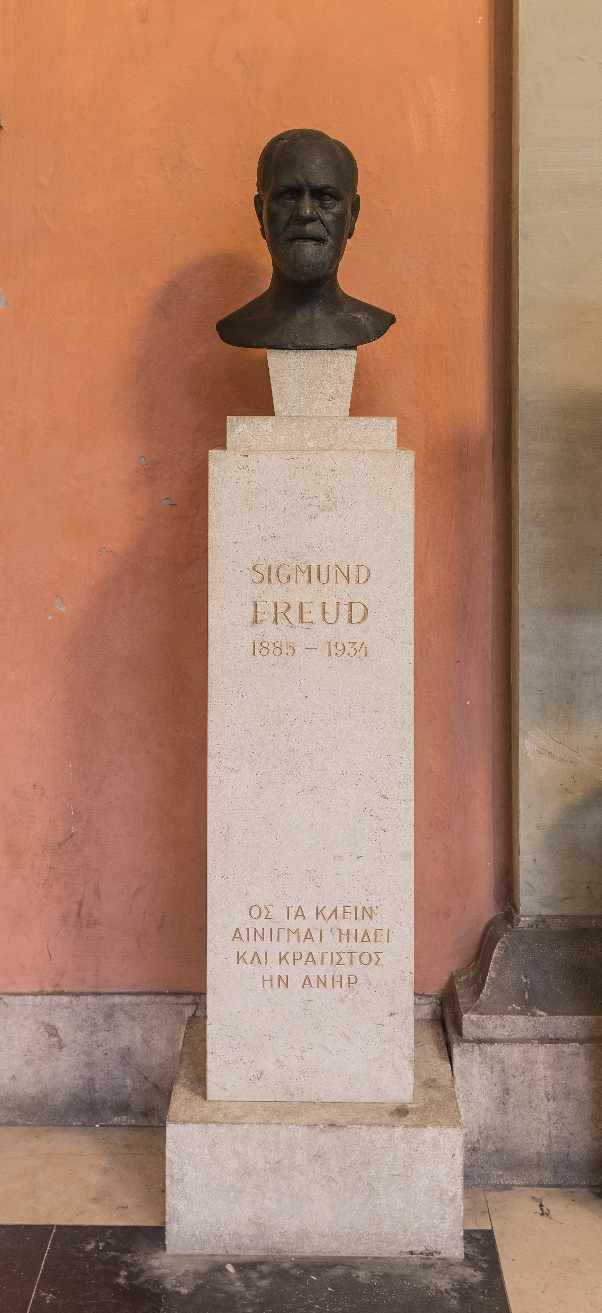 Sigmund Freud (1815-1898), bust (bronce) in the Arkadenhof of the University of Vienna, (Maisel# 97). Artist: Paul Königsberger, unveiled 1955